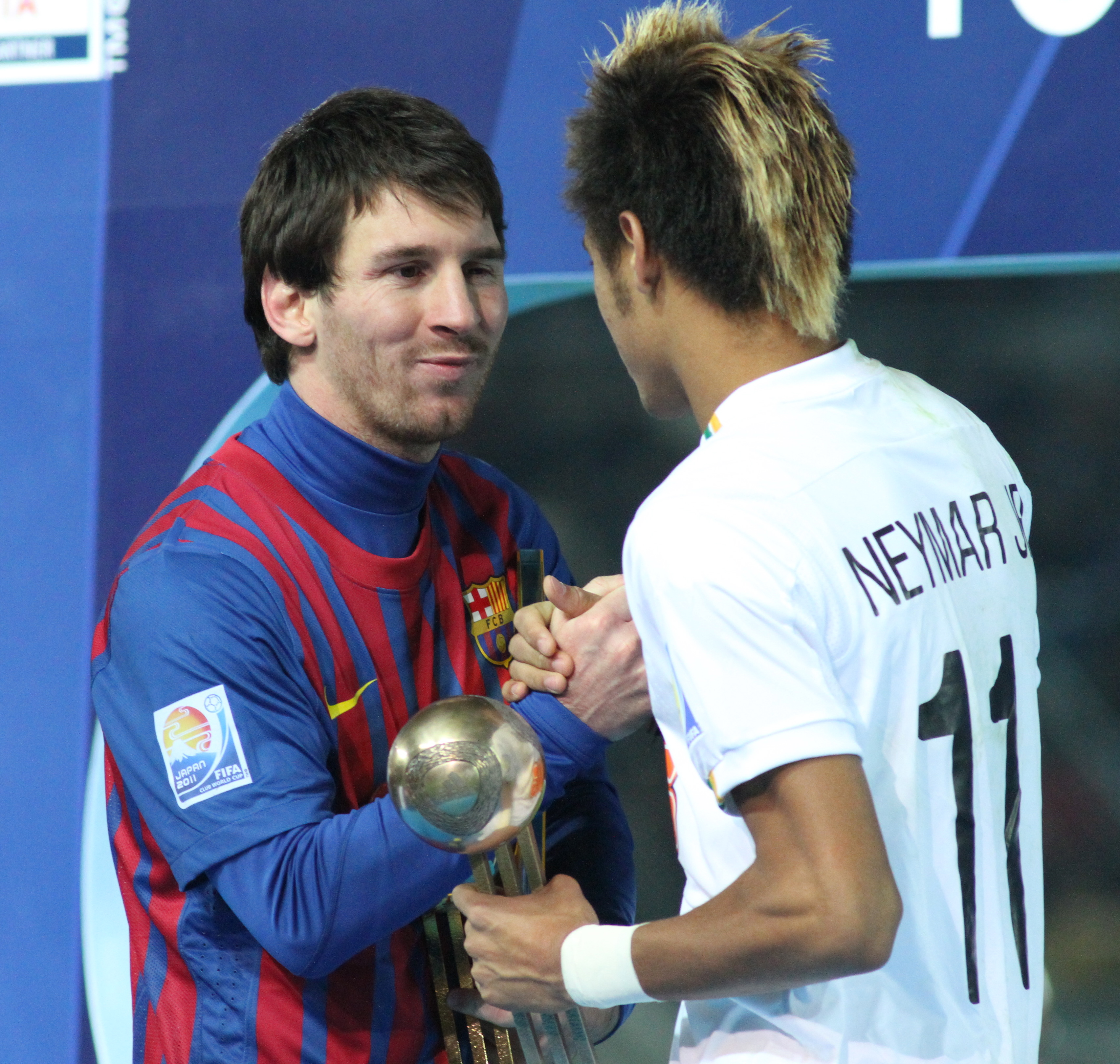 Messi and Neymar shake hands.